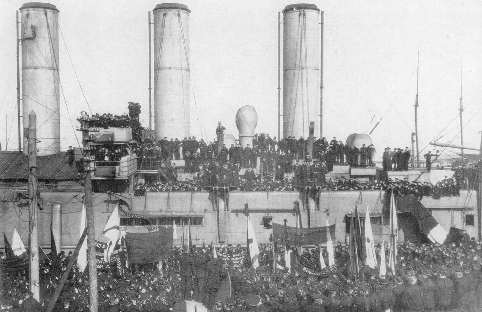 The Imperial Russian training ship Dvina.